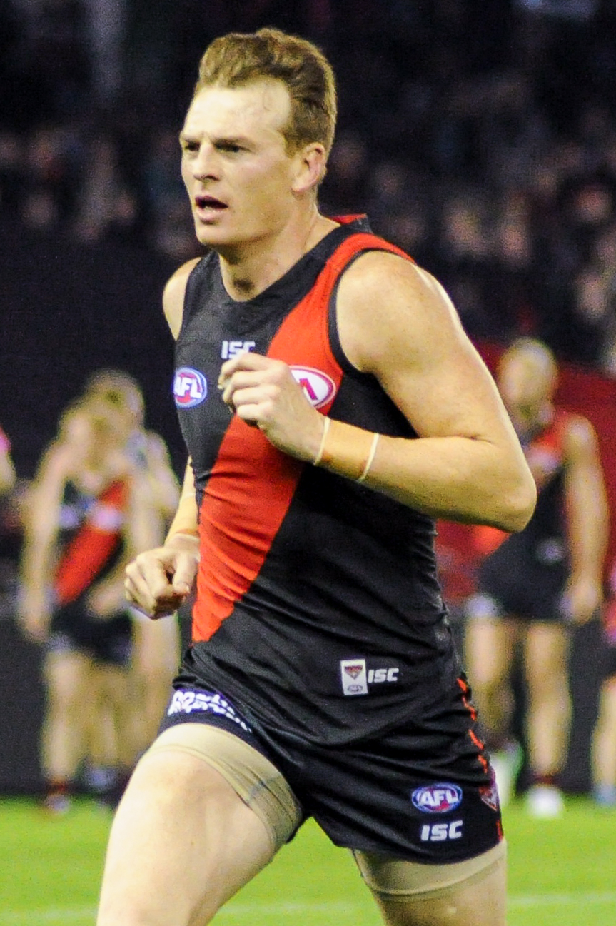 Brendon Goddard during the AFL round twelve match between Essendon and Port Adelaide on 10 June 2017 at Etihad Stadium in Melbourne, Victoria.